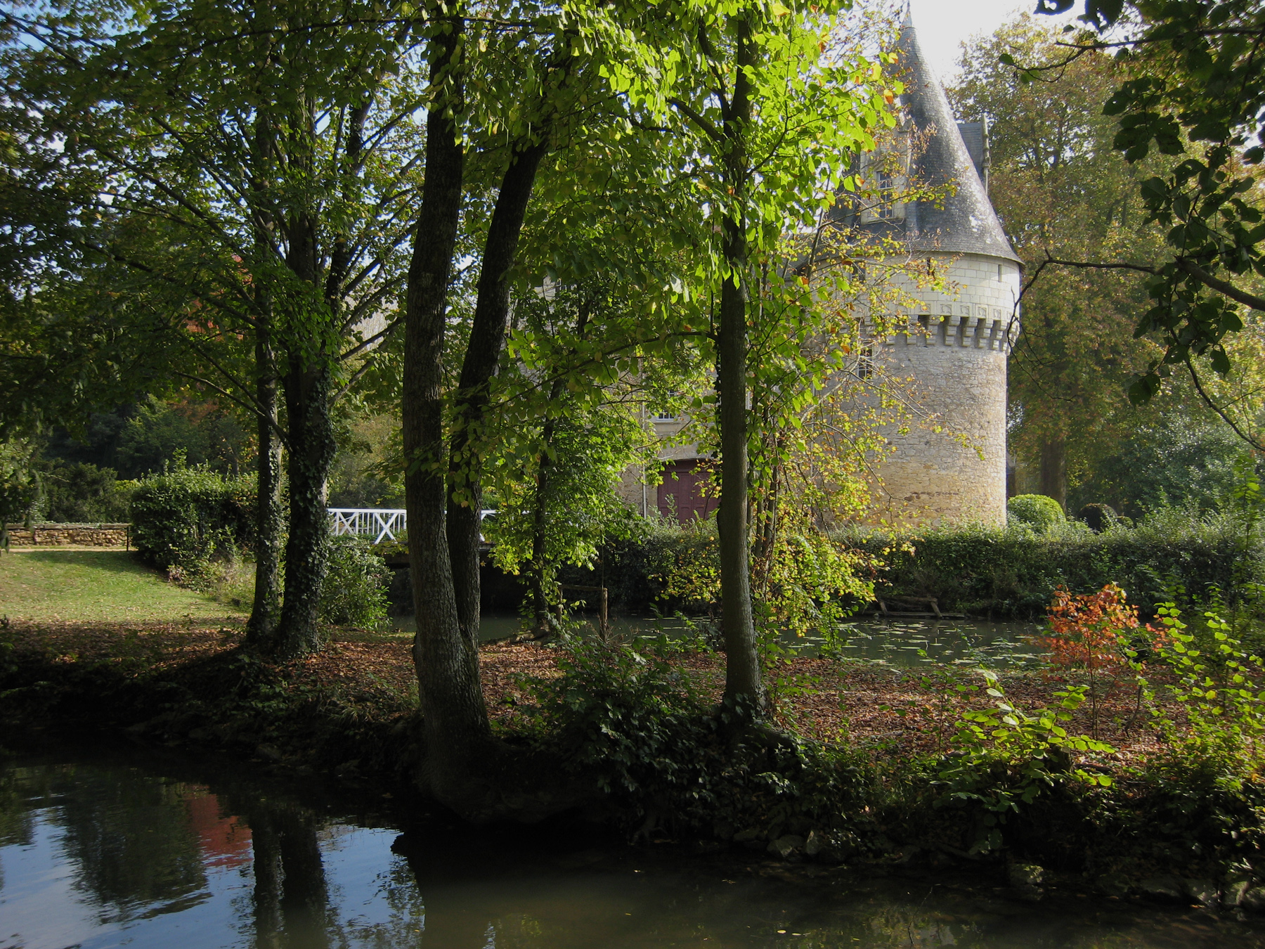 Castle of Bazouges, located in the village of Bazouges-sur-le-Loir in the county of Sarthe/France.